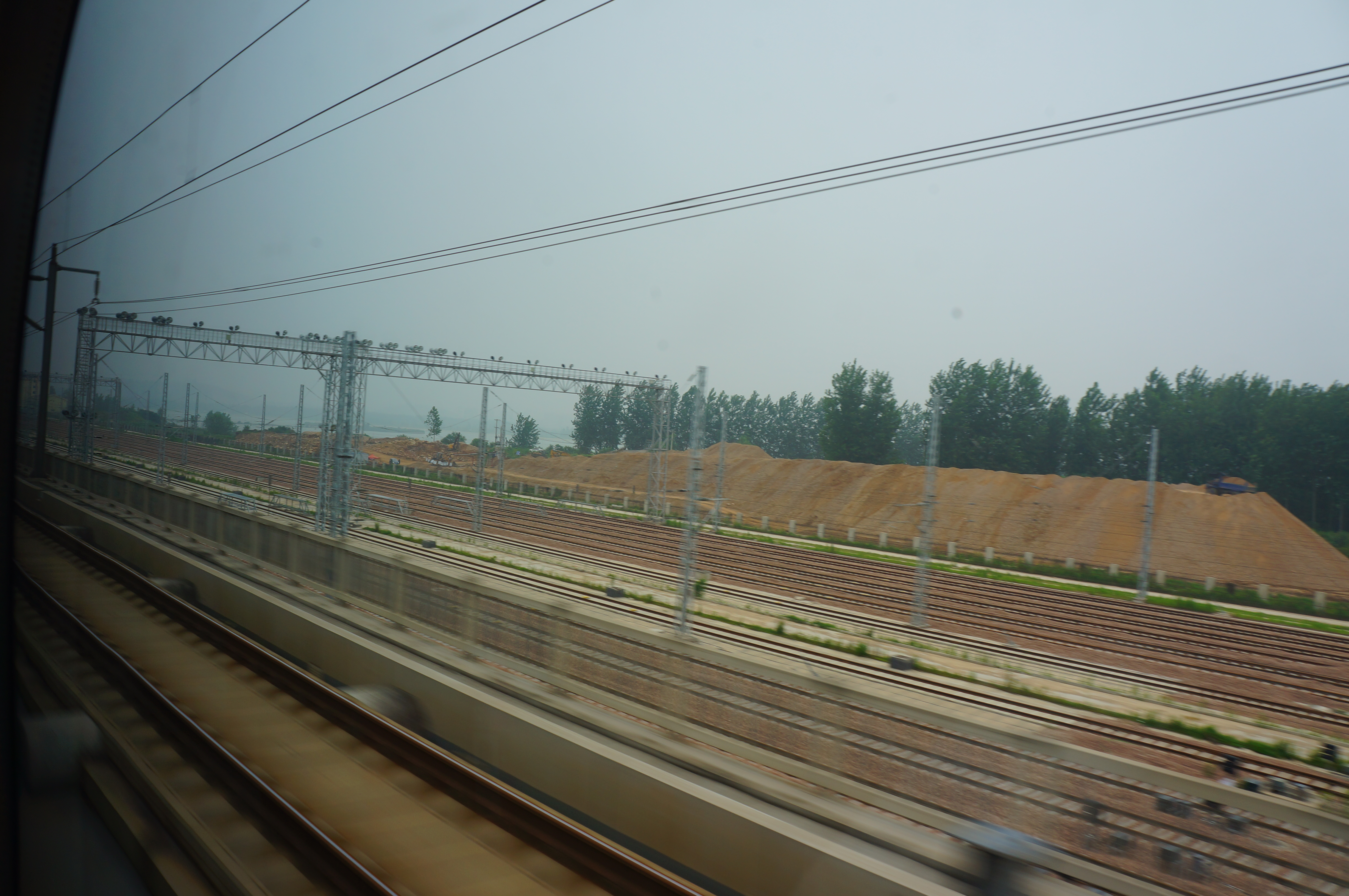 201606 Xuzhoudong EMU storage yard